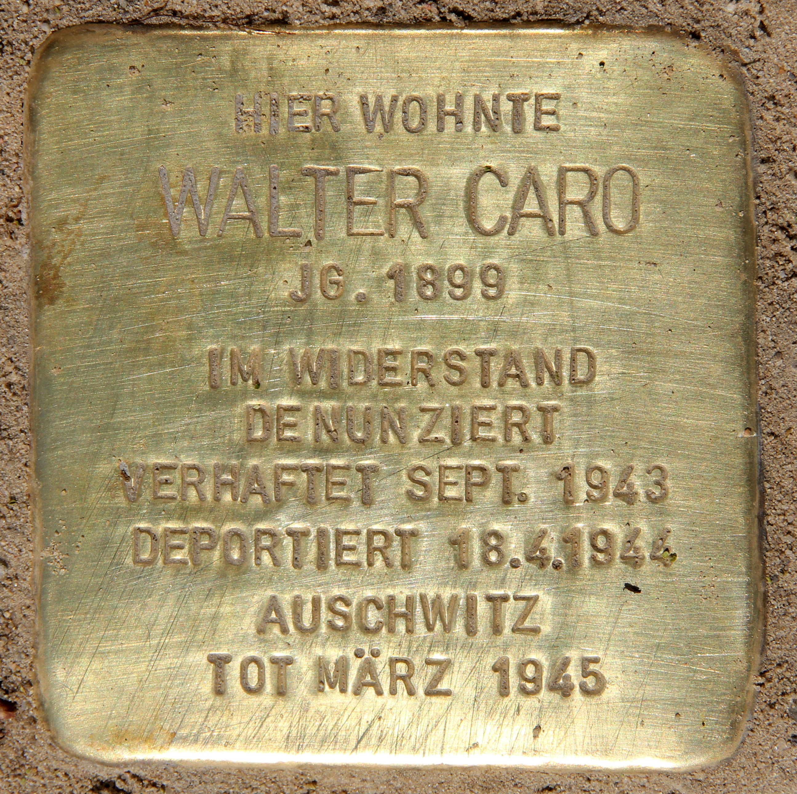 "Stolperstein" (stumbling block), Walter Caro, Trautenaustraße 8, Berlin-Wilmersdorf, Germany